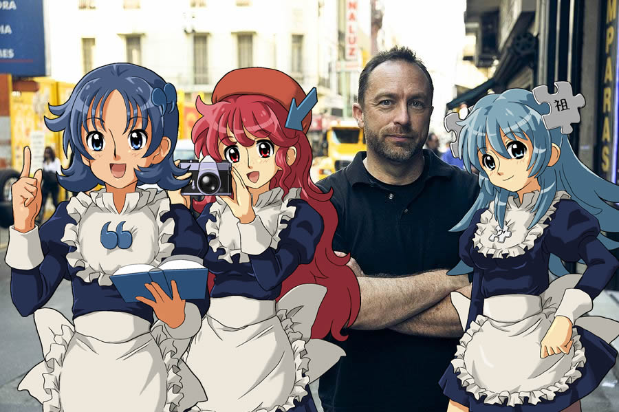 Jimbo and his Angels (not to be confused with Charlie's Angels)